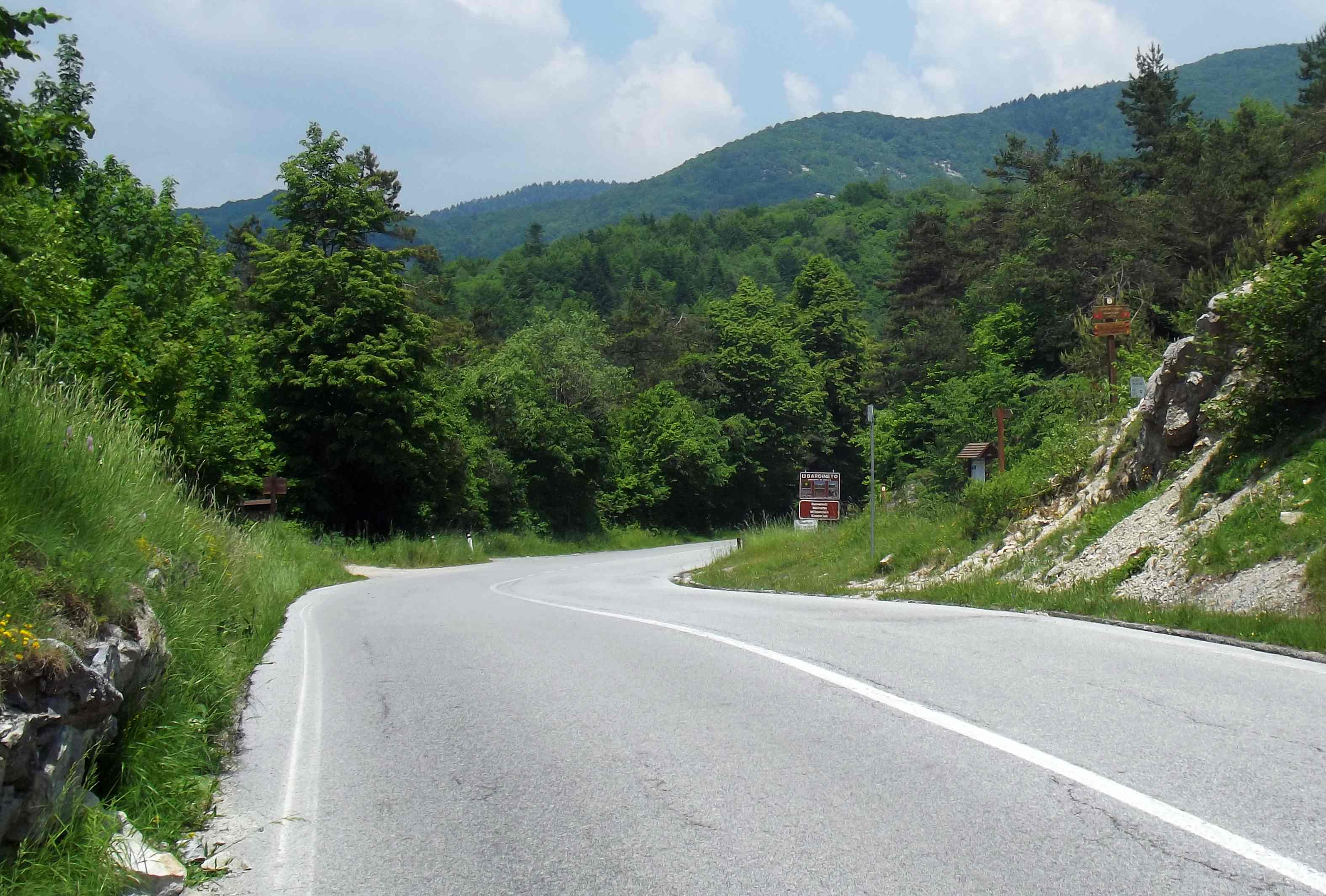 Giogo di Toirano (SV, Italy) from its Varatella side